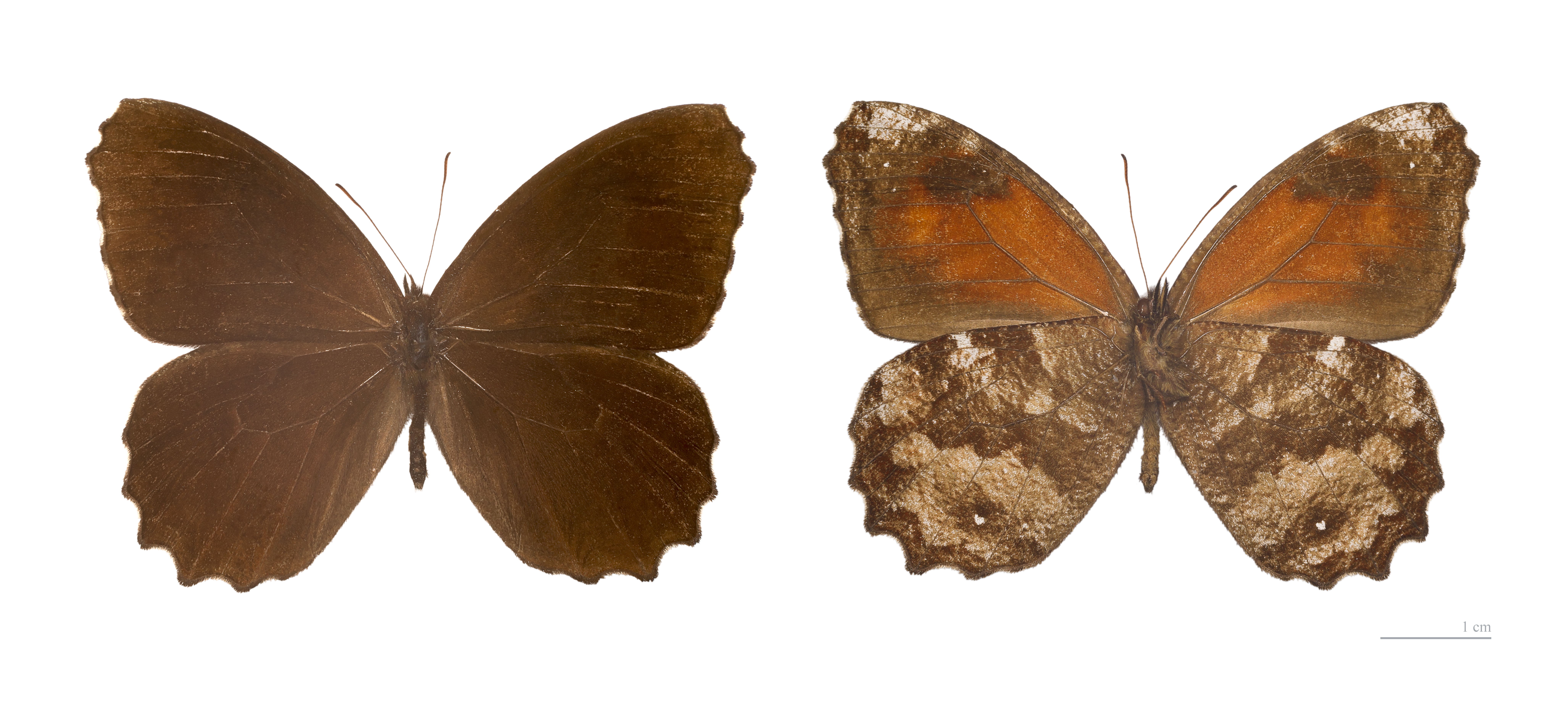 ♂ - Two views of same specimen Locality:Chapare Province, Bolivia (TL).